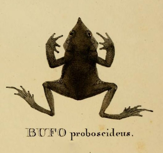 Cropped illustration of Rhinella proboscidea (then Bufo proboscideus), from Johann Baptist von Spix's original description.